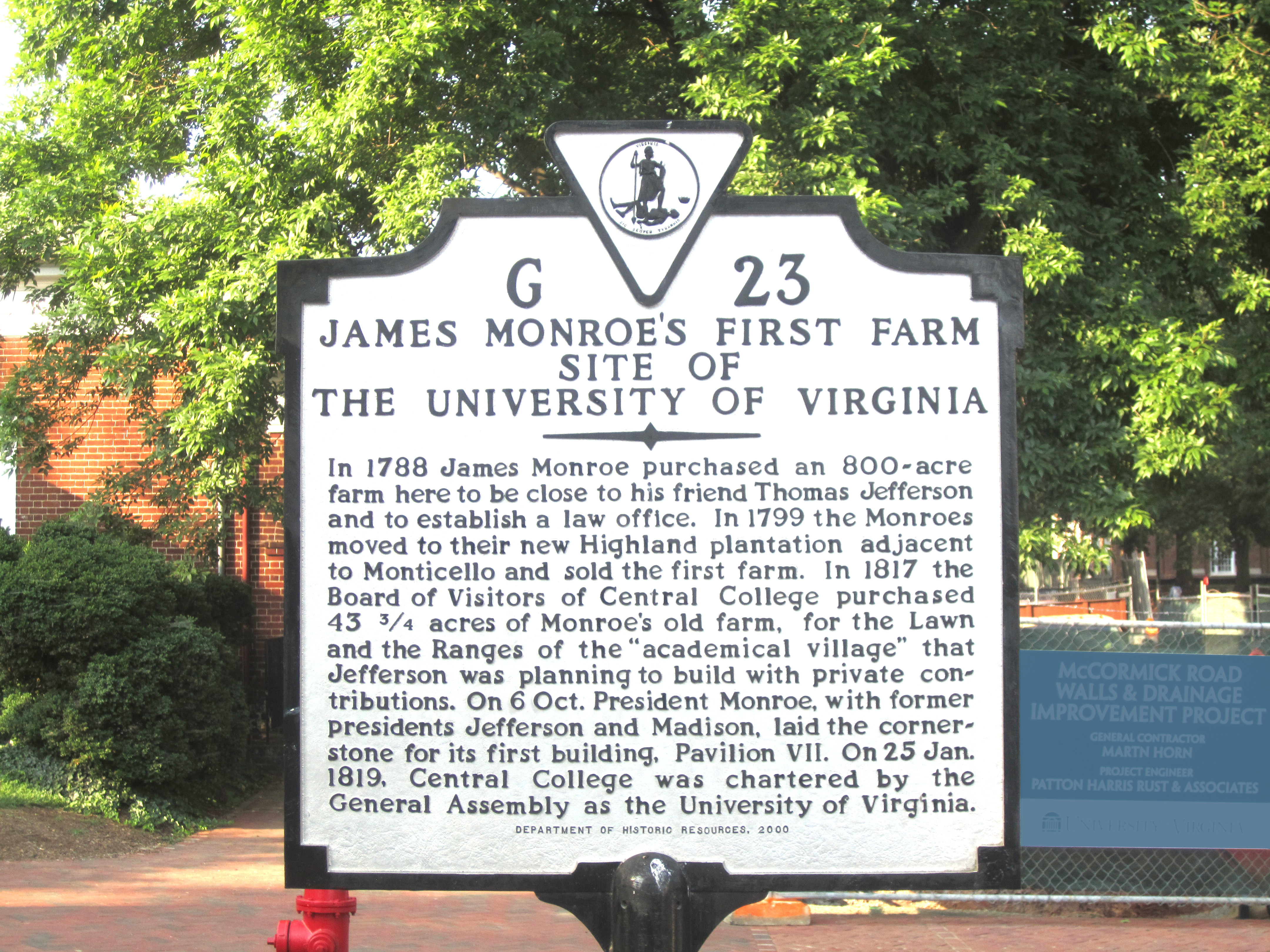 I took photo of VA historical marker of James Monroe at the univ. of VA, with Canon camera.